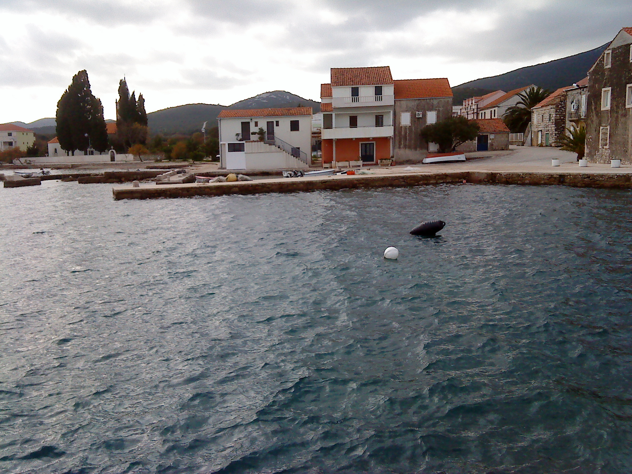 Port of Sreser